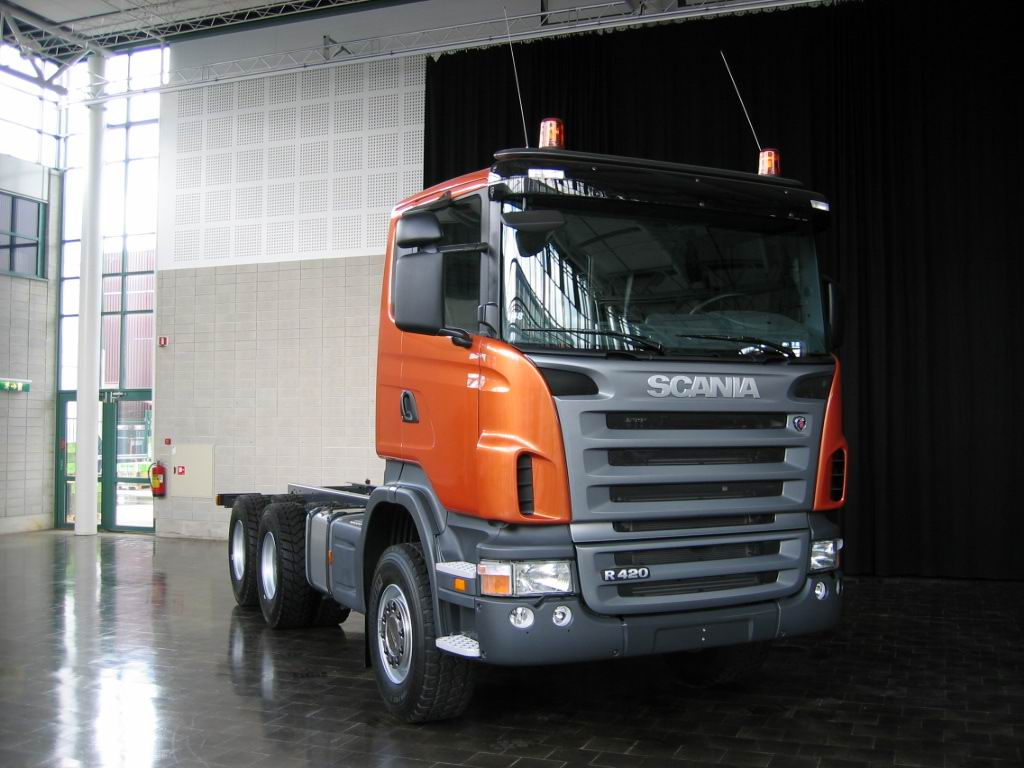 This picture can be found in gallery Scania AB.